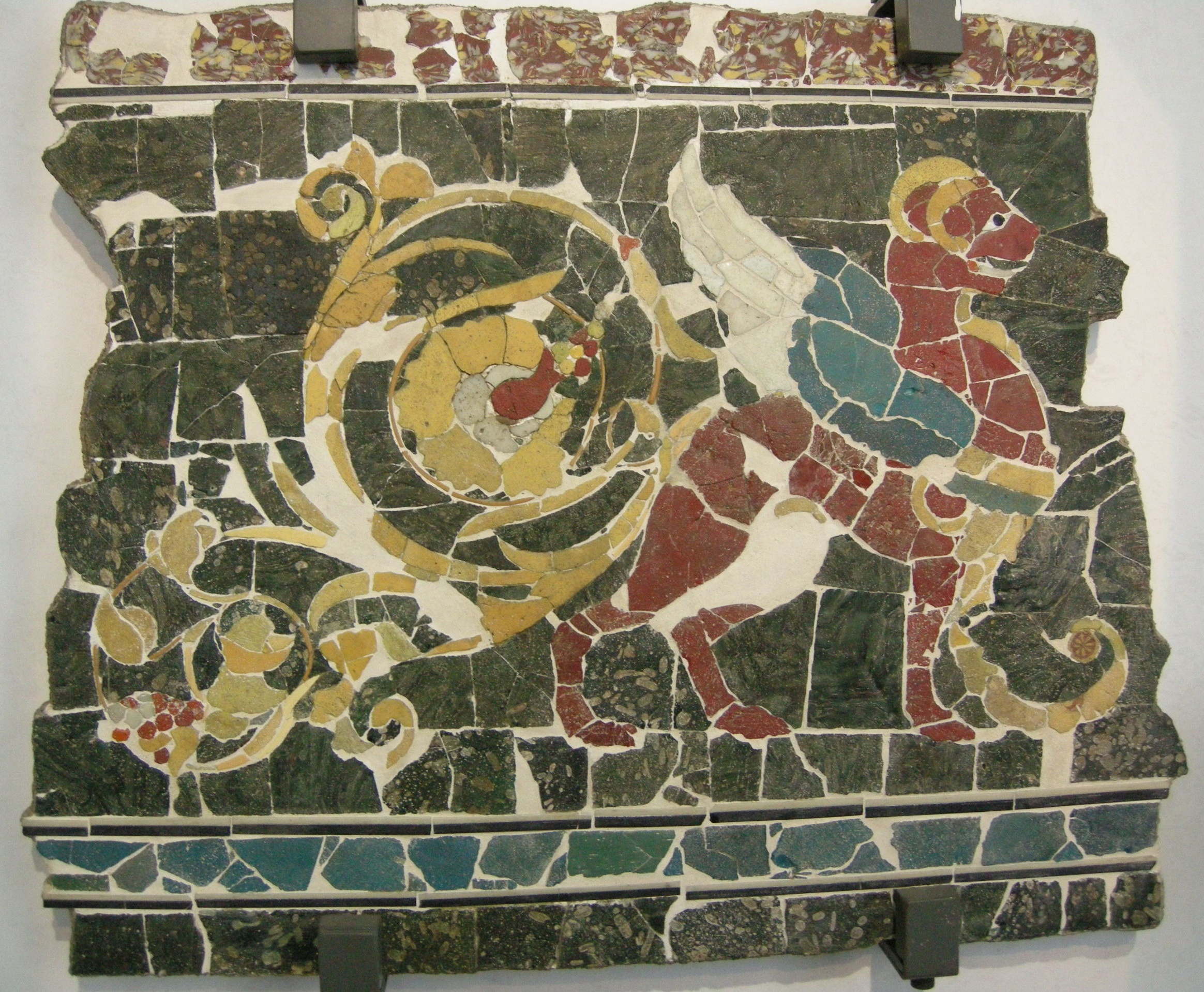 read filename please (it)